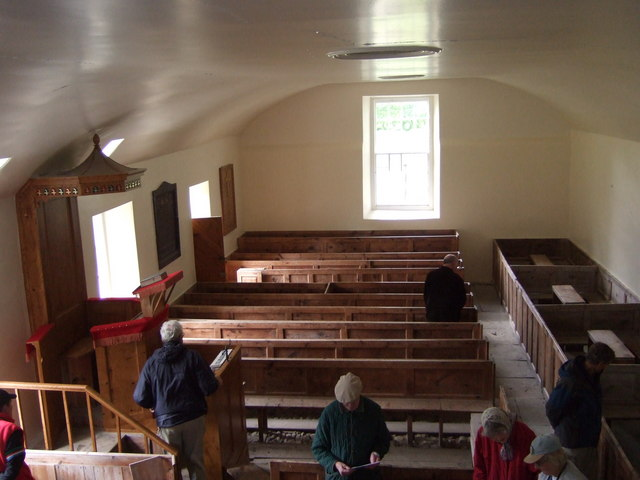 Inside the Old Kirk of Glenbuchat, Aberdeenshire, seen from the Laird's Loft. Pulpit with sounding board on south wall (right), and box pews (left).